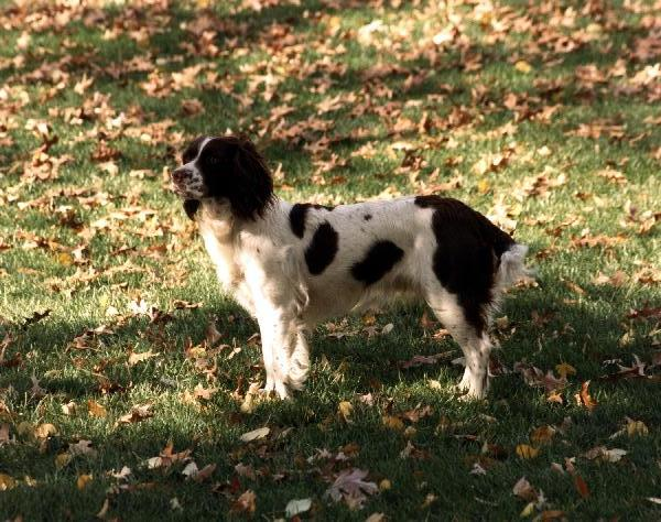 Millie, the pet of George Hebert Walker Bush.